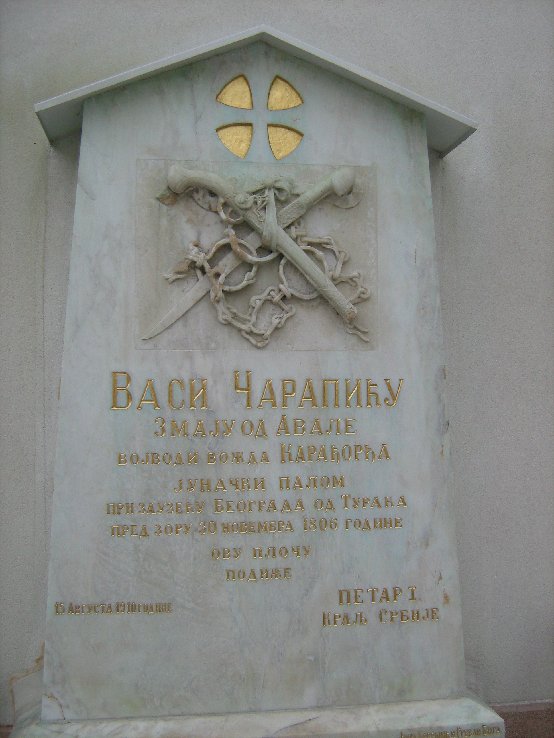 Grave of Vasa Čarapić (1770-1806), Rakovica monastery, Belgrade